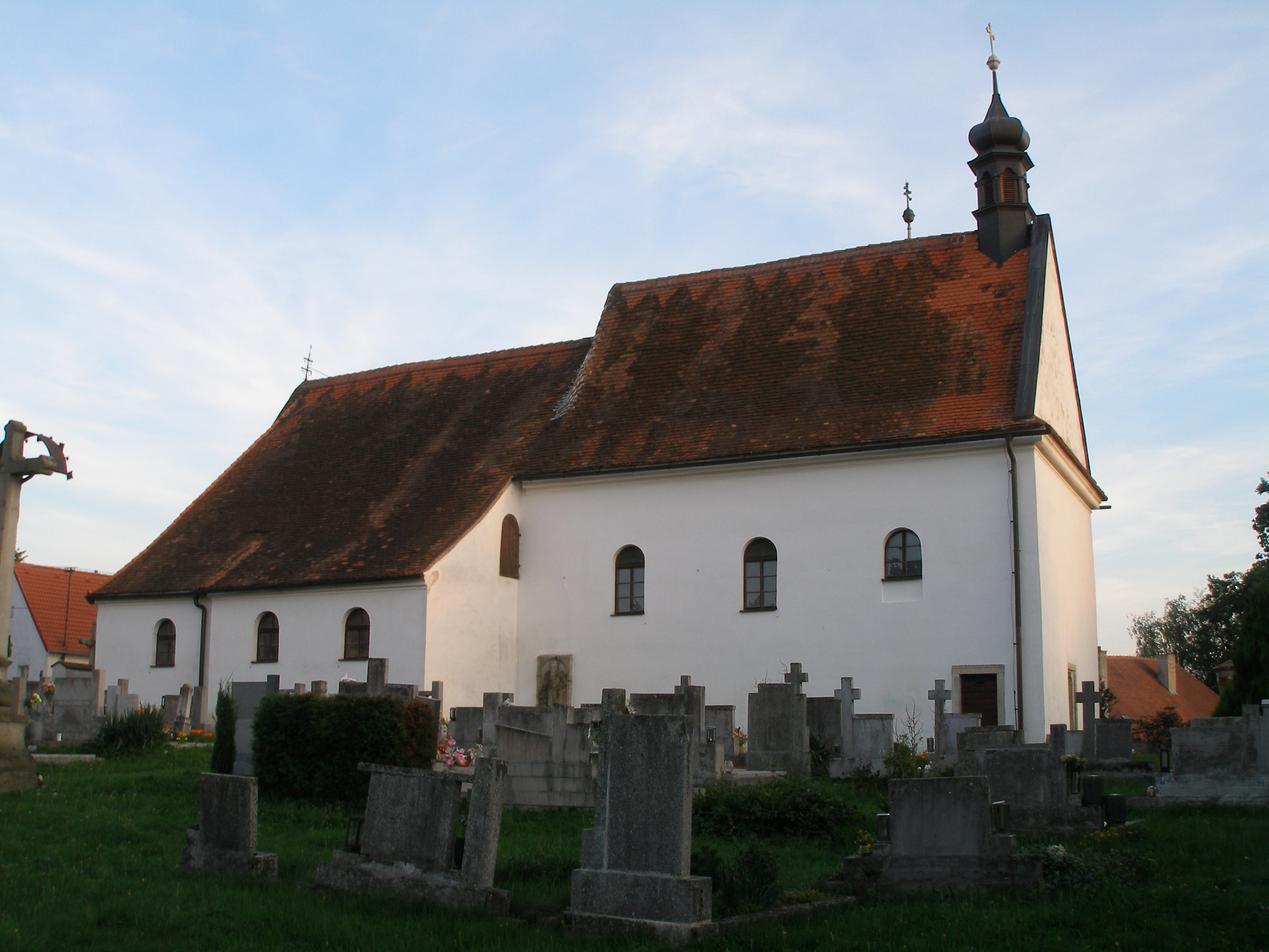 Nové Sady (part of Písečné, Jindřichův Hradec district) - the church (the view from the North)